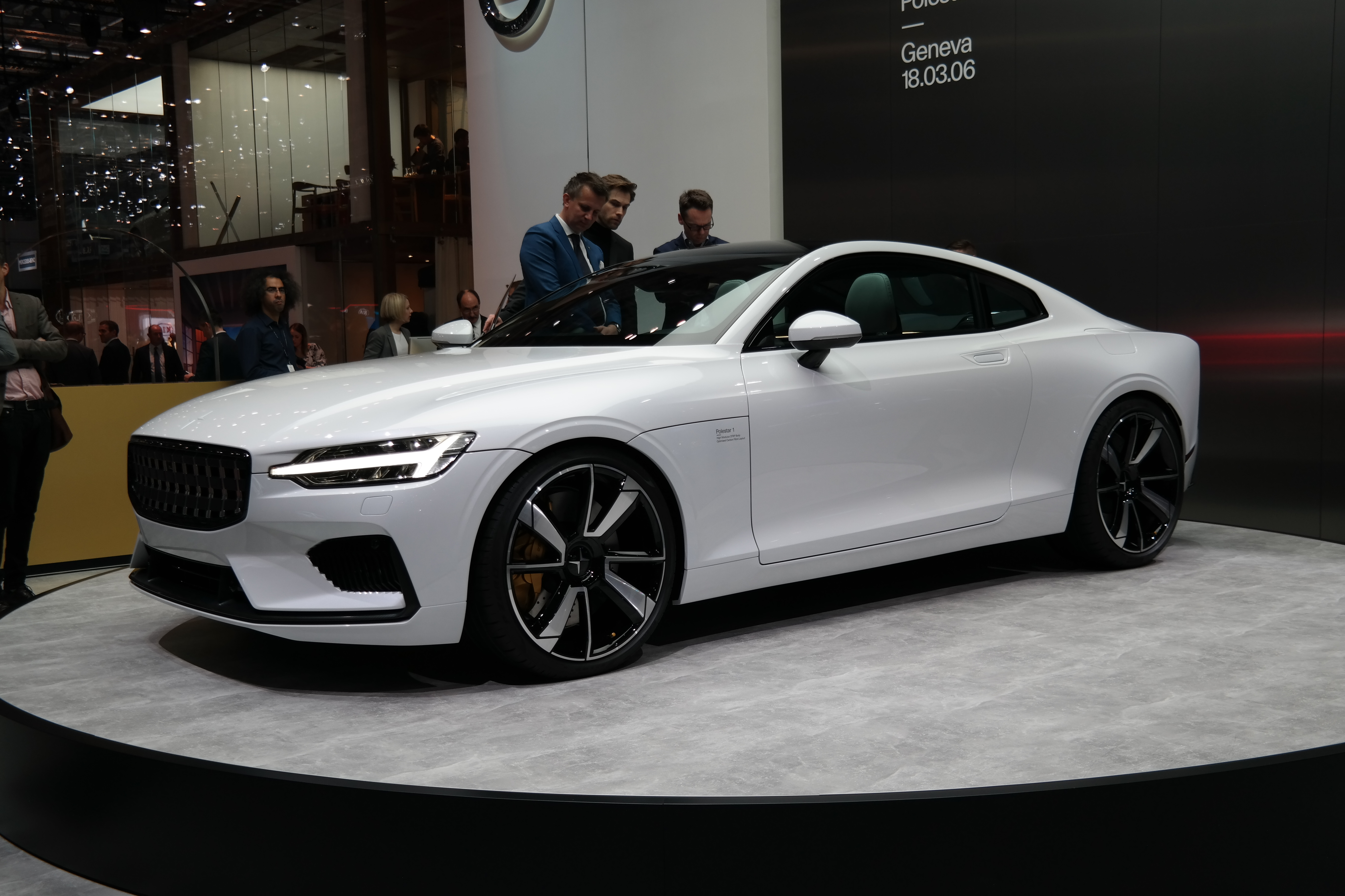 Geneva Motor Show 2018 (photo taken on the first press day)